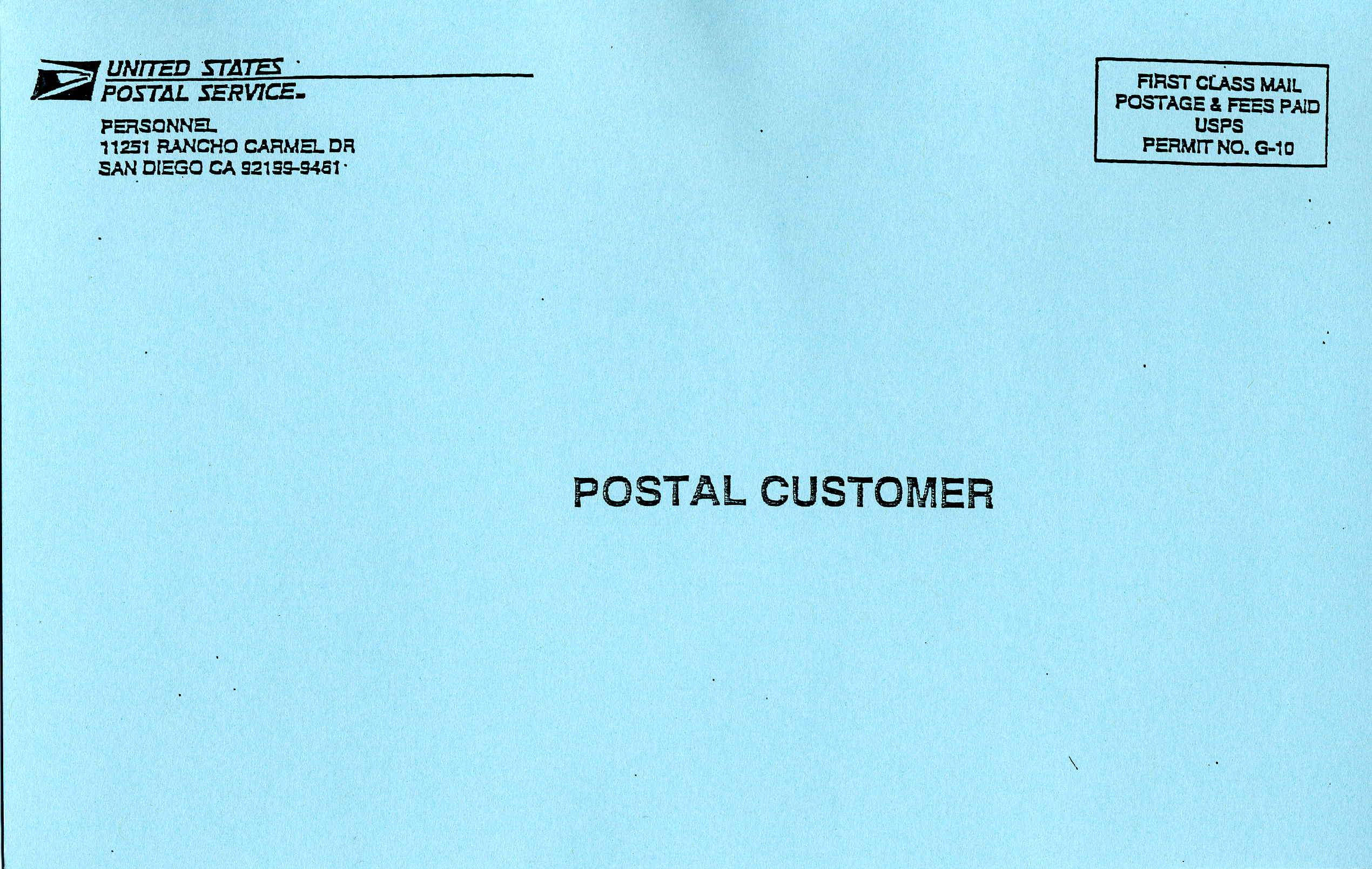 An example of the United States Postal Service postcard with a preprinted First Class postage. 2007.